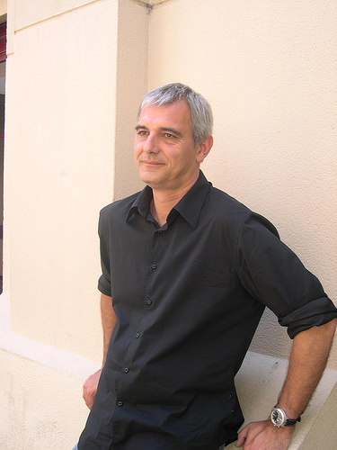 Laurent Cantet, french director, for an interview for "Vers le sud", at Barcelona